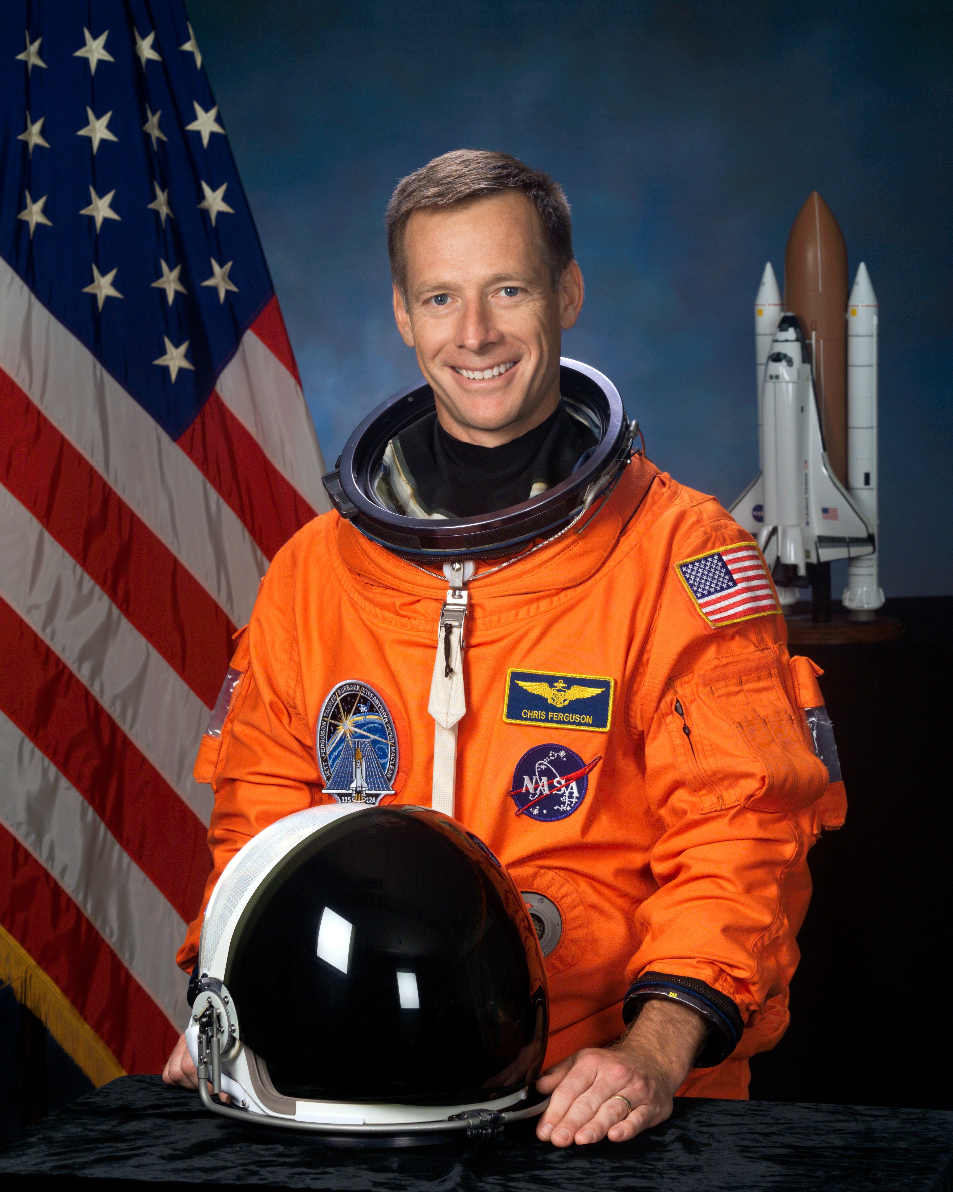 Astronaut Christopher J. Ferguson